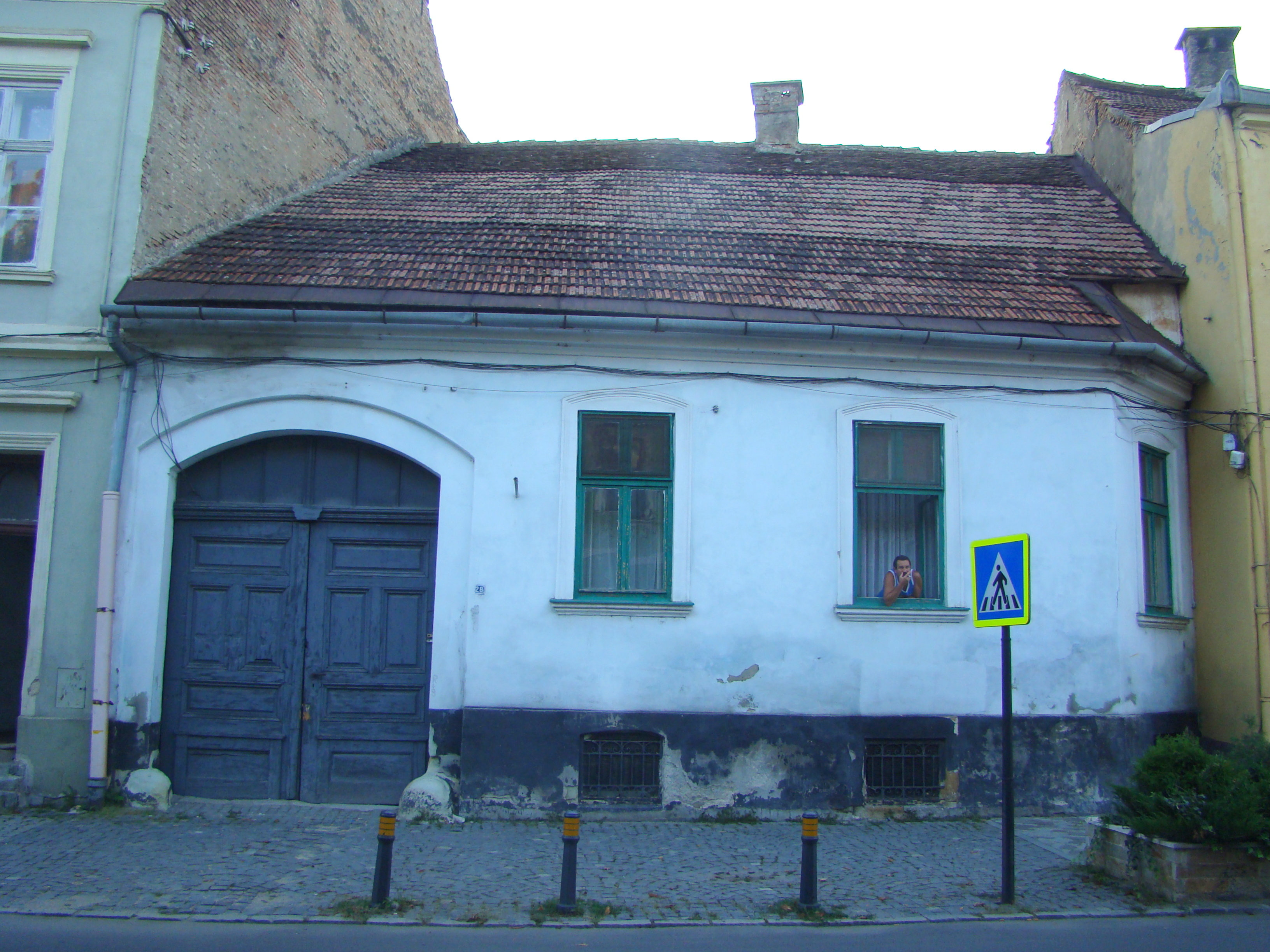 House, historic monument, in Bistrița, Nicolae Titulescu street 28